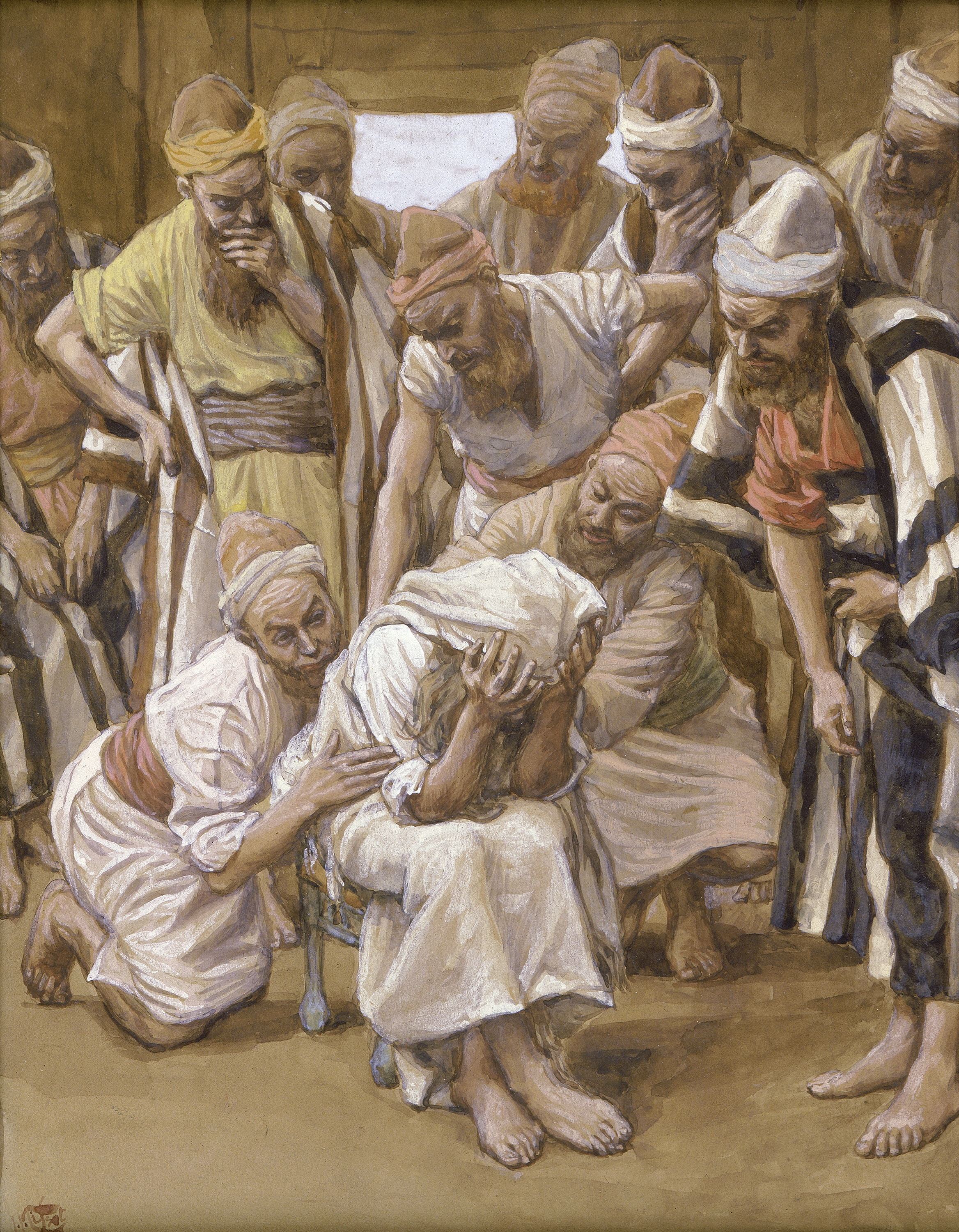 Jacob Mourns His Son Joseph, c. 1896-1902, by James Jacques Joseph Tissot (French, 1836-1902), gouache on board, 7 5/16 x 5 5/8 in. (18.7 x 14.3 cm), at the Jewish Museum, New York